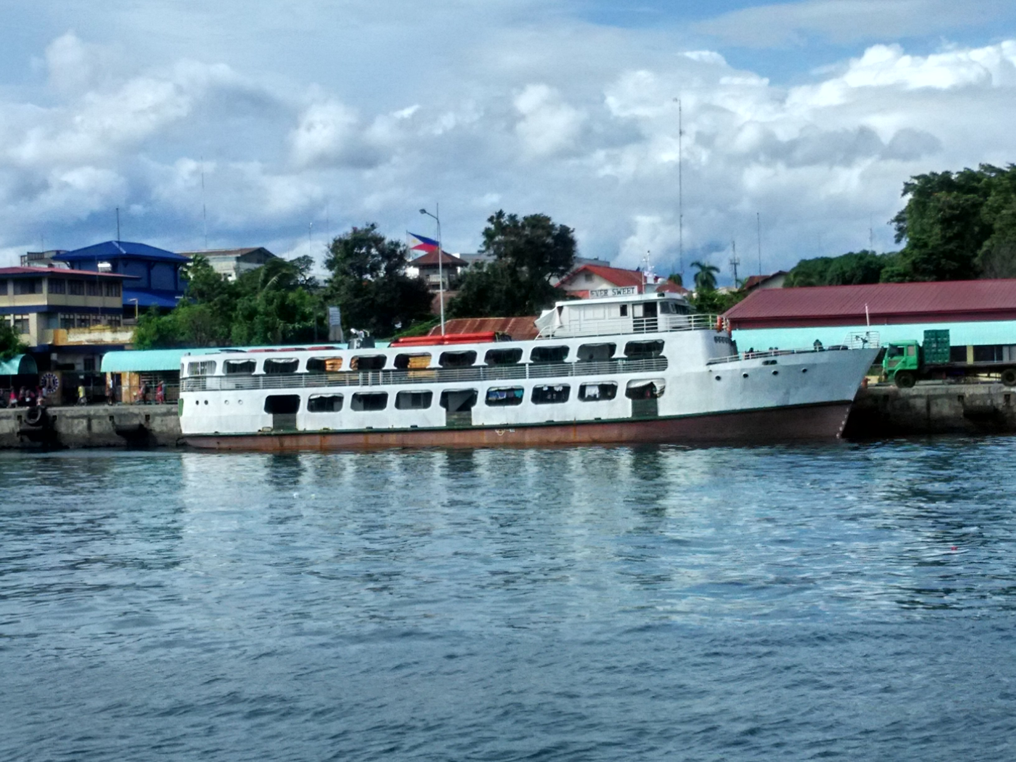 MV Ever Sweet at the Zamboanga International Seaport. Filipino Ship Enthusiast Coalition